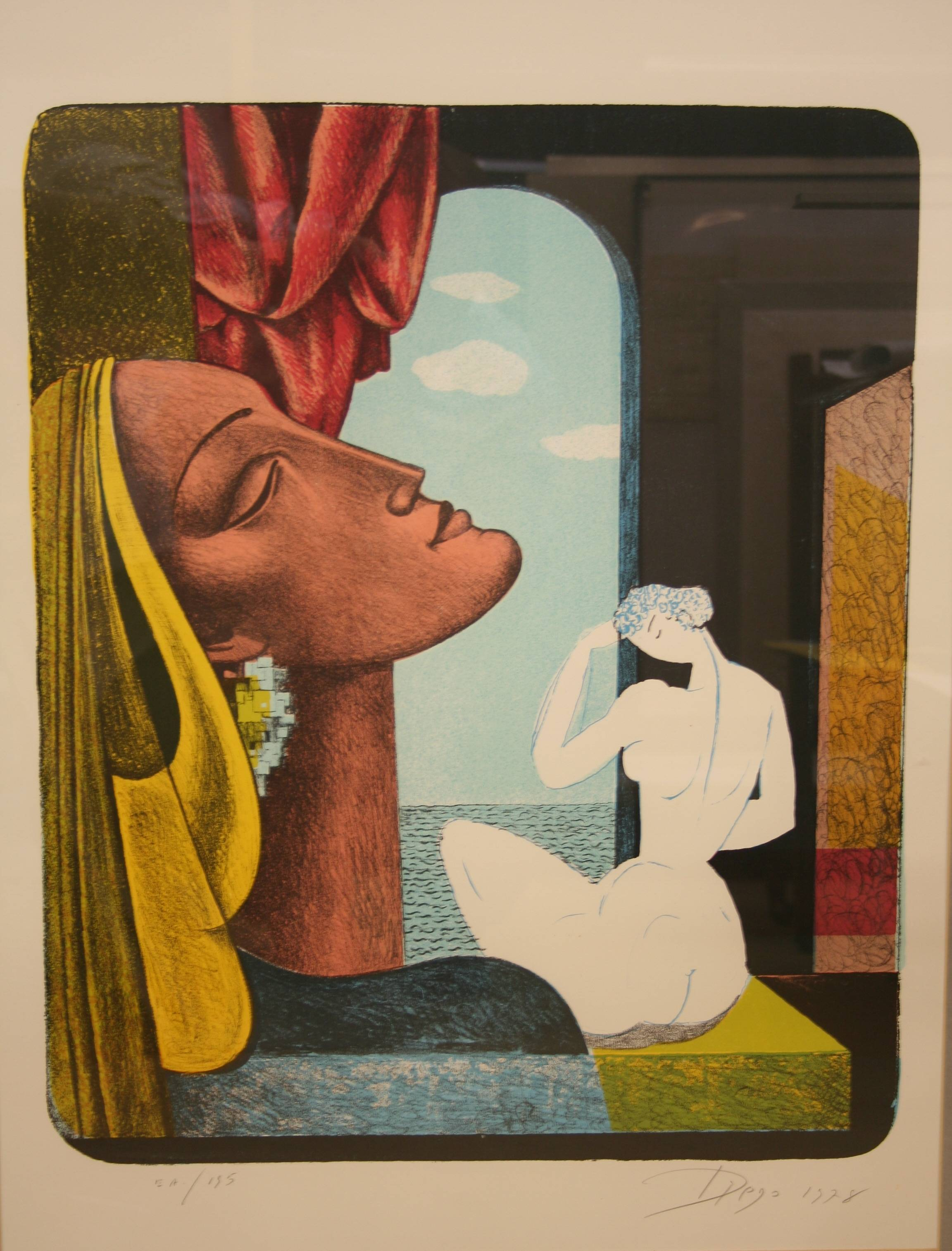 A DIEGO Voci lithograph A DIEGO Voci lithograph.